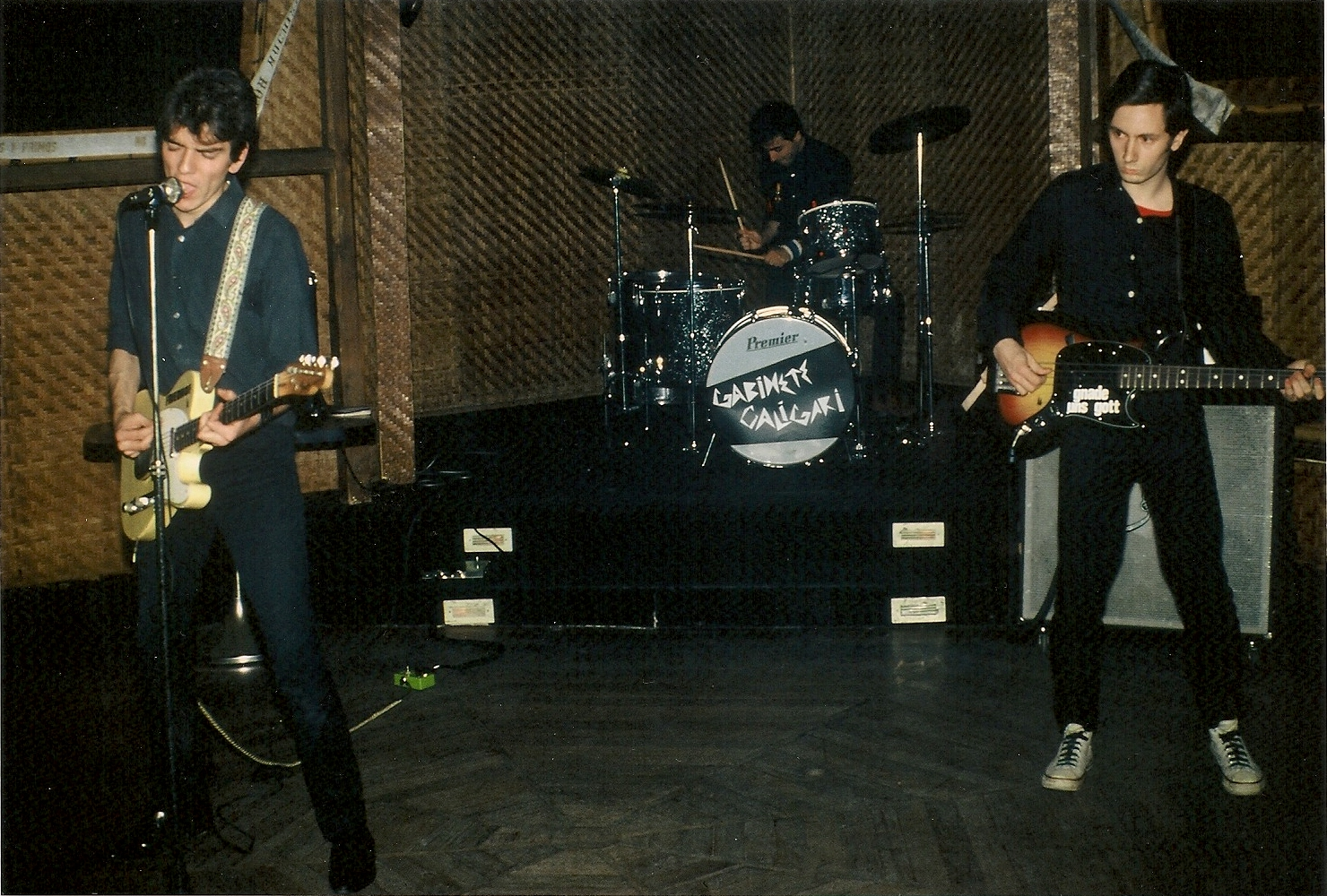 band Gabinete Caligari, playing in 1981